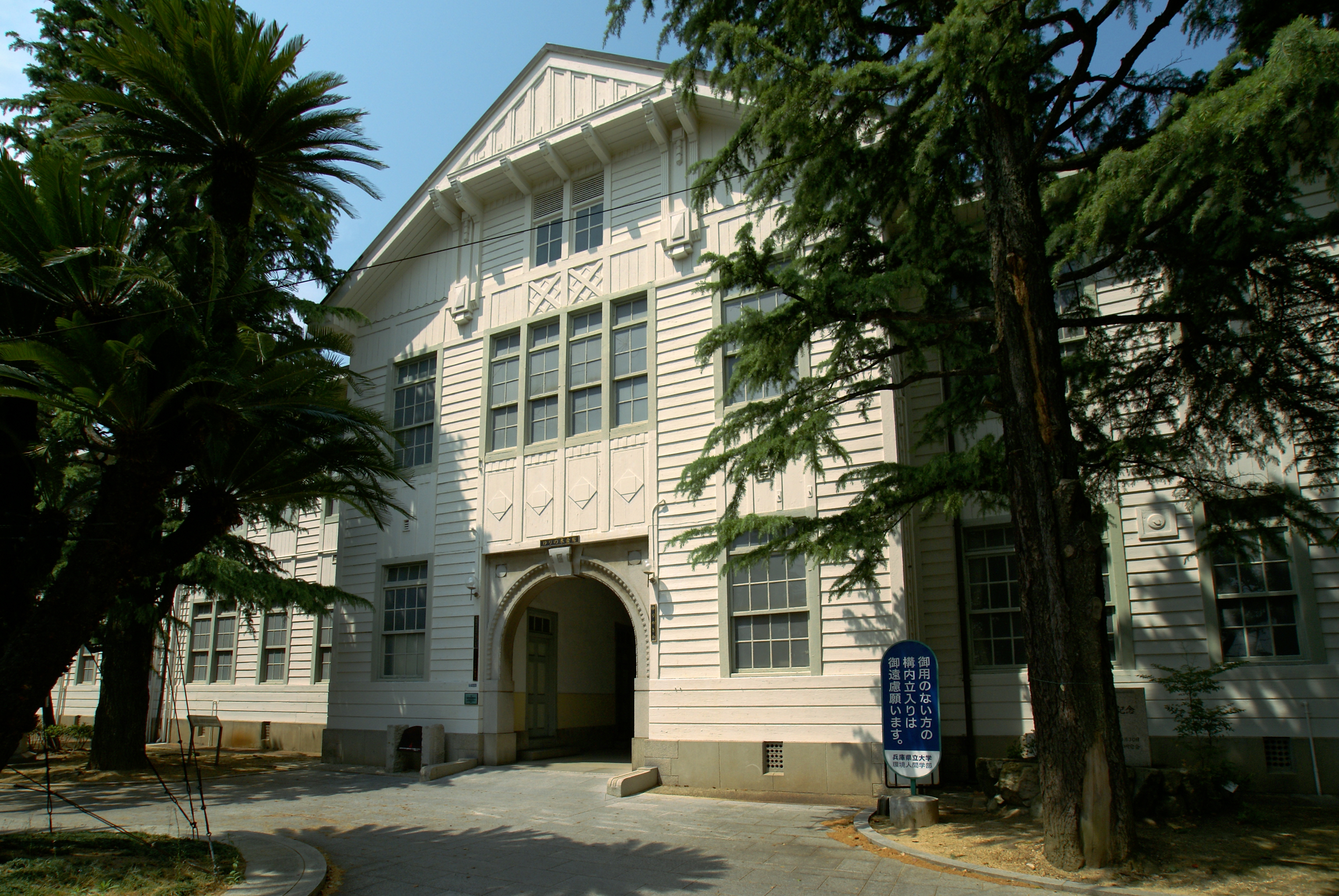 University_of_Hyogo Himeji Shinzaike Campus in Himeji, Hyogo prefecture, Japan